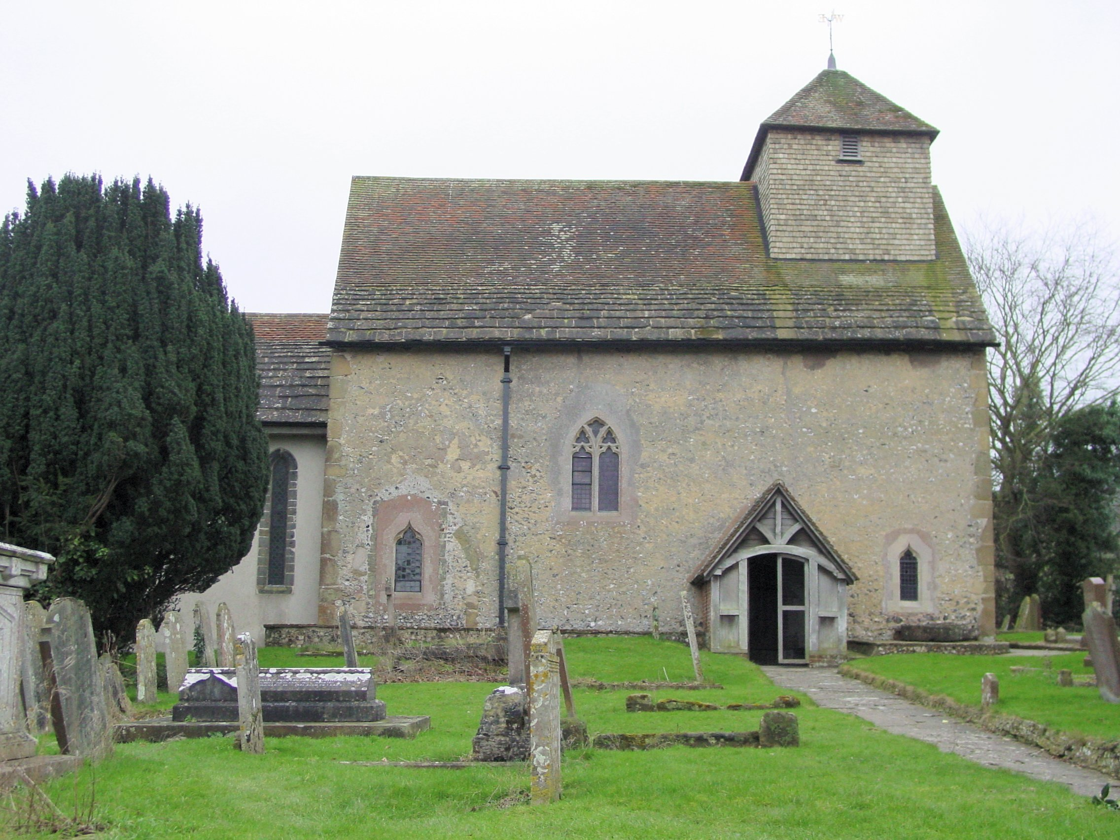 Clayton Saxon Church from the outside.